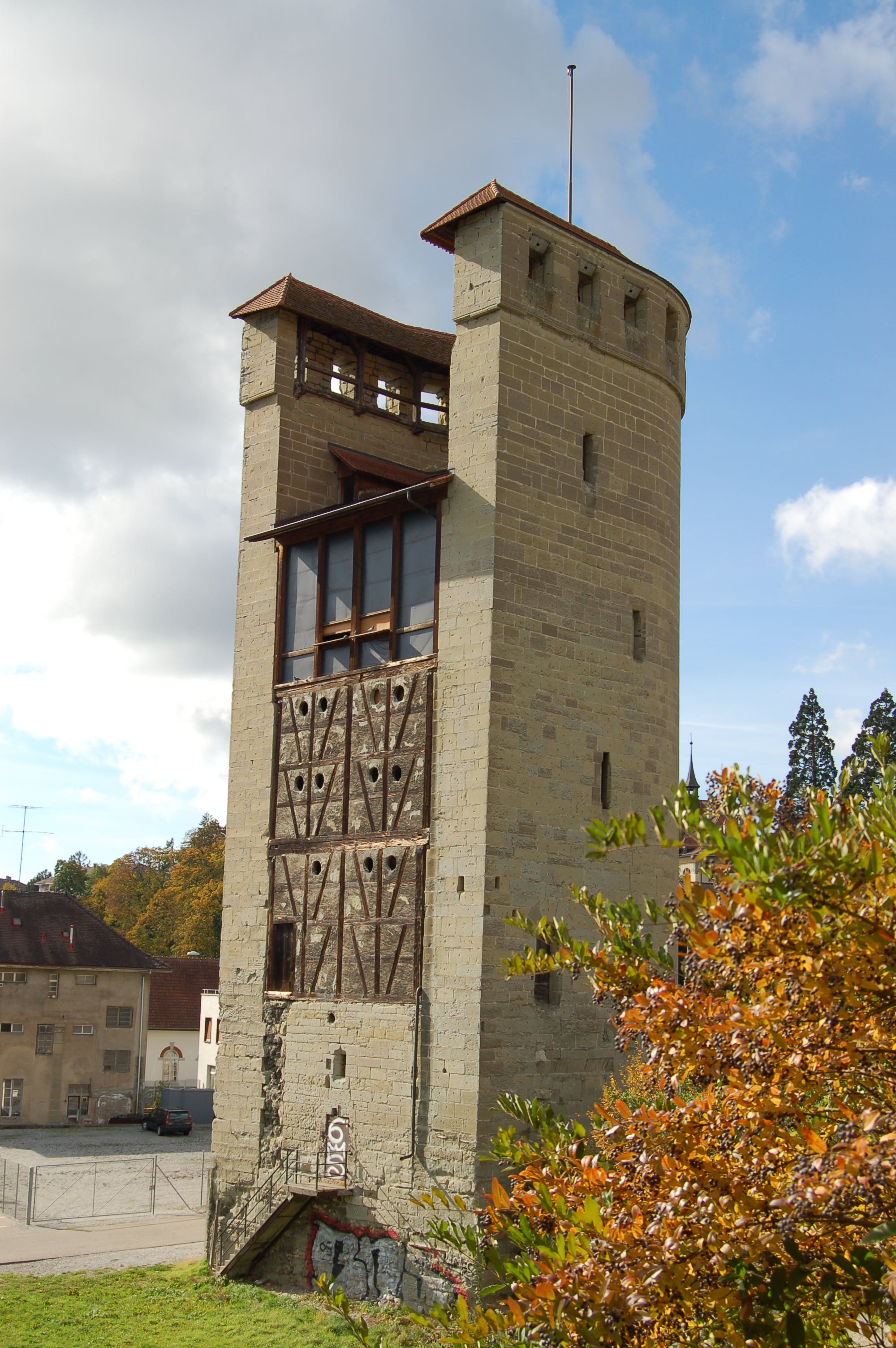 Fribourg, Switzerland